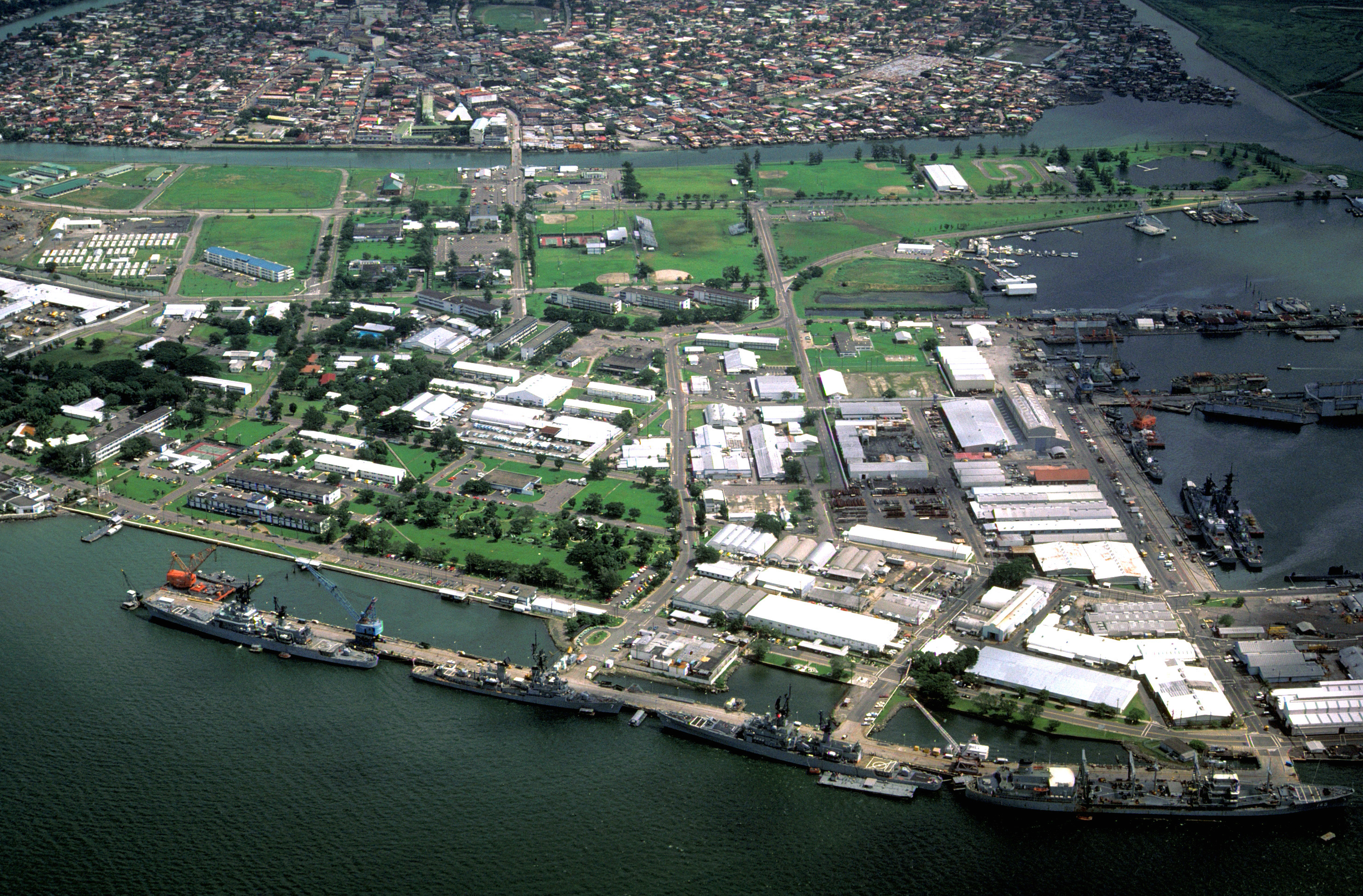 A view of the Naval Base, Subic Bay, with the city of Olongapo in the background. The ships docked at the pier in the foreground are, from right: the oiler USNS HASSAYAMPA (T-AO-145), the guided missile cruiser USS STERETT (CG-31), the guided missile destroyer USS HENRY B. WILSON (DDG-7) and the guided missile cruiser WILLIAM H. STANDLEY (CG-32).